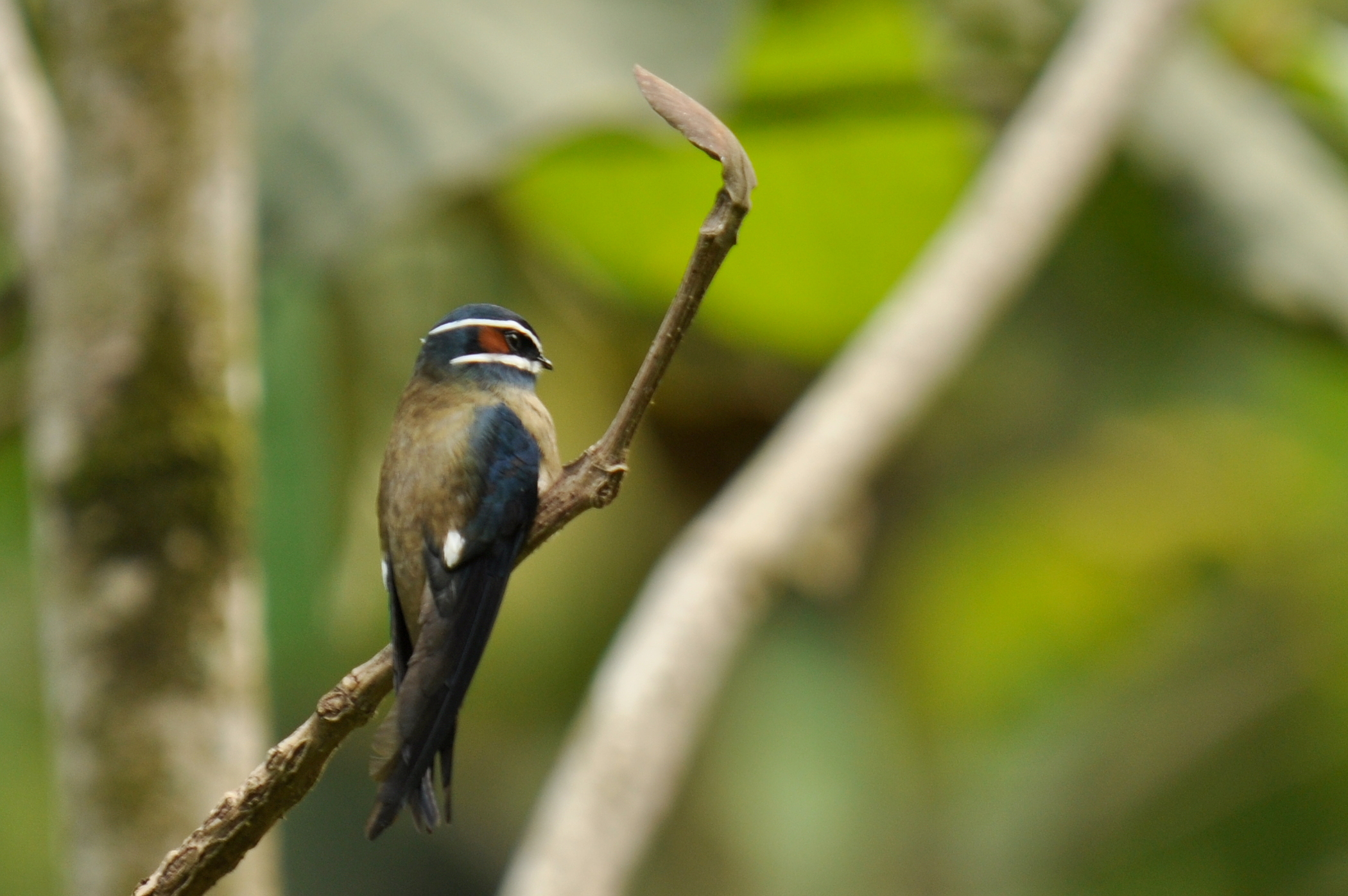 Whiskered Treeswift (Hemiprocne comata) in Danum valley, Sabah, Borneo